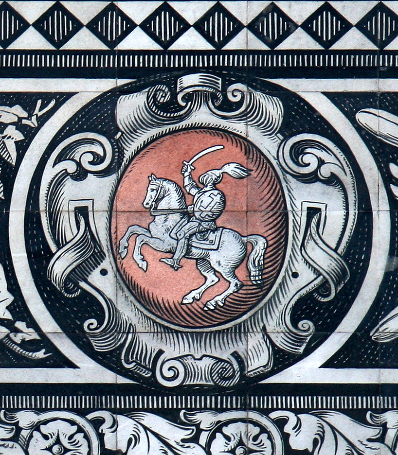 Stylized coat of arms Pahonia from a big picture Fürstenzug in Dresden, Germany